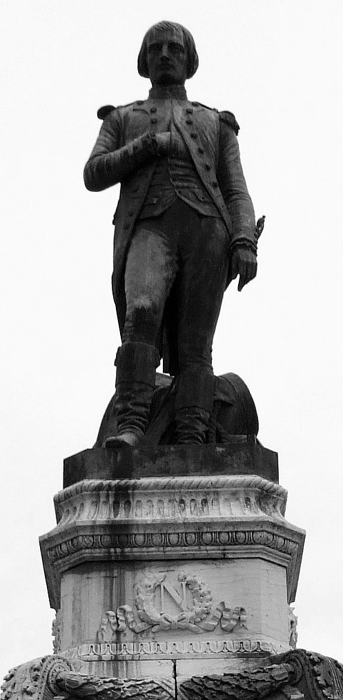 François Jouffroy: Le Lieutenant Bonaparte, statue, 1857, Auxonne, Côte-d'Or, Bourgogne, France.